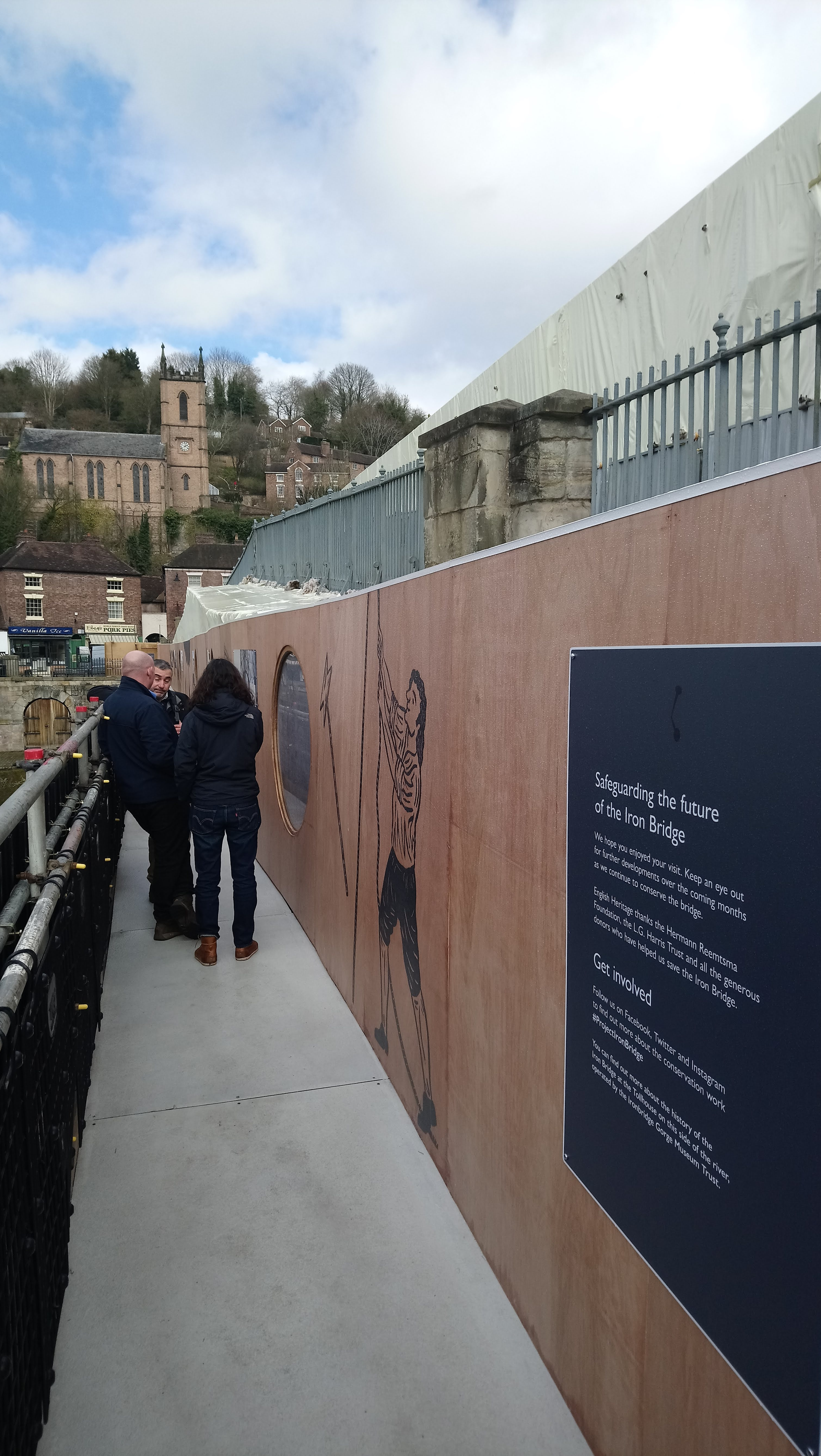 The Iron Bridge during restoration in 2018. It was under scaffolding at the time, with interpretation boards along the walkway.